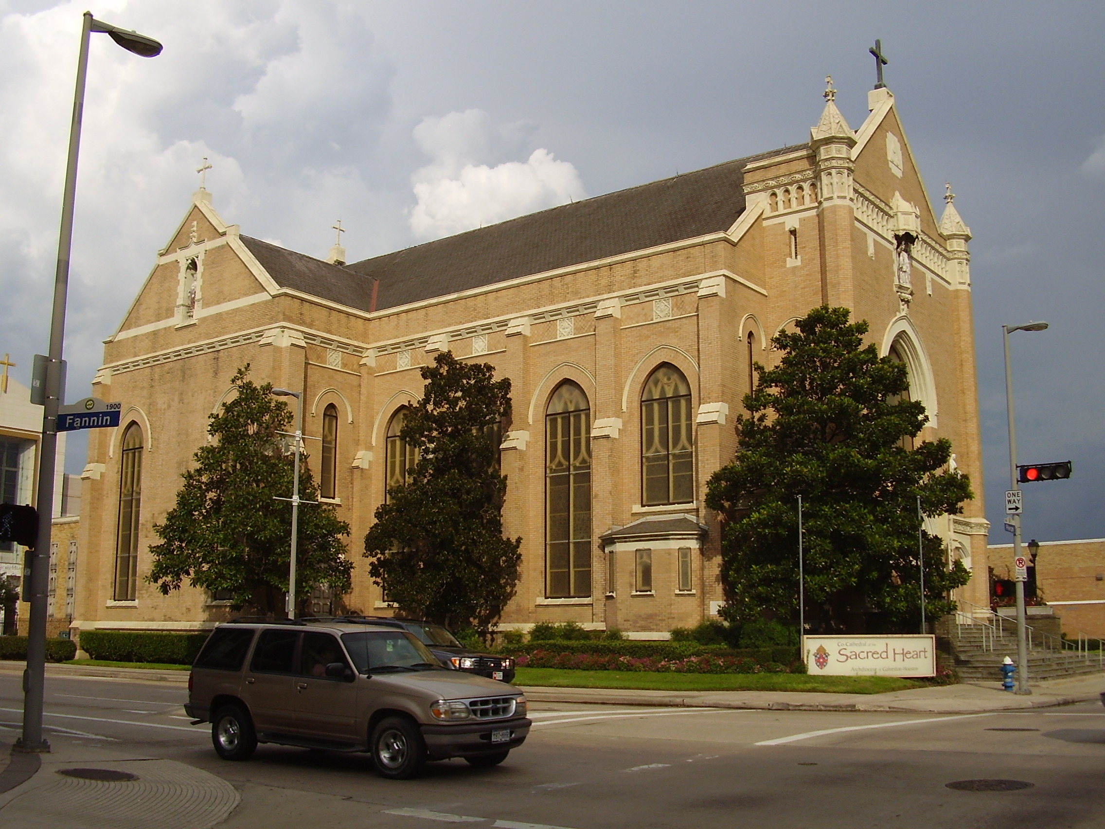 The old Sacred Heart Co-Cathedral in Houston